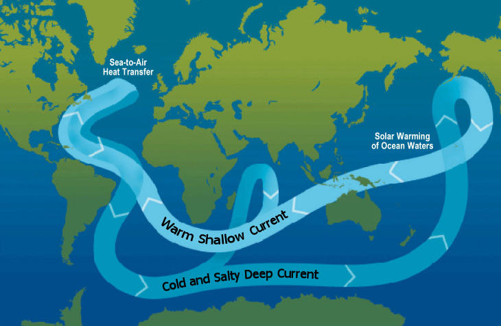 Ocean Circulation Conveyor Belt. The ocean plays a major role in the distribution of the planet's heat through deep sea circulation. This simplified illustration shows this "conveyor belt" circulation which is driven by the difference in heat and salinity. Records of past climate suggest that there is some chance that this circulation could be altered by the changes projected in many climate models.